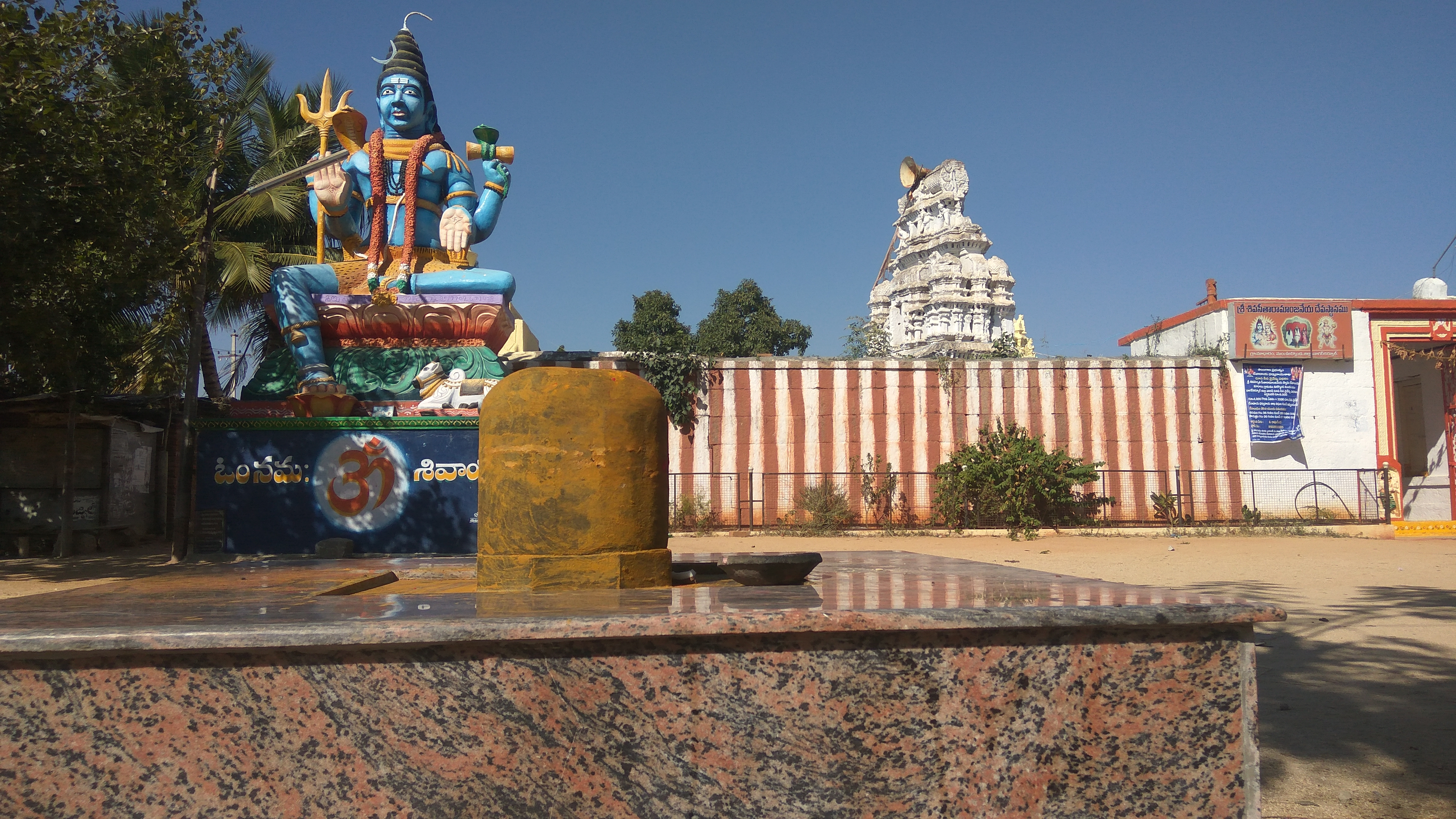 Lord ShivaSeethaRamAnjaneya Temple in Madharam Village, Urkonda Mandal, Nagar Karnool District in Telangana State